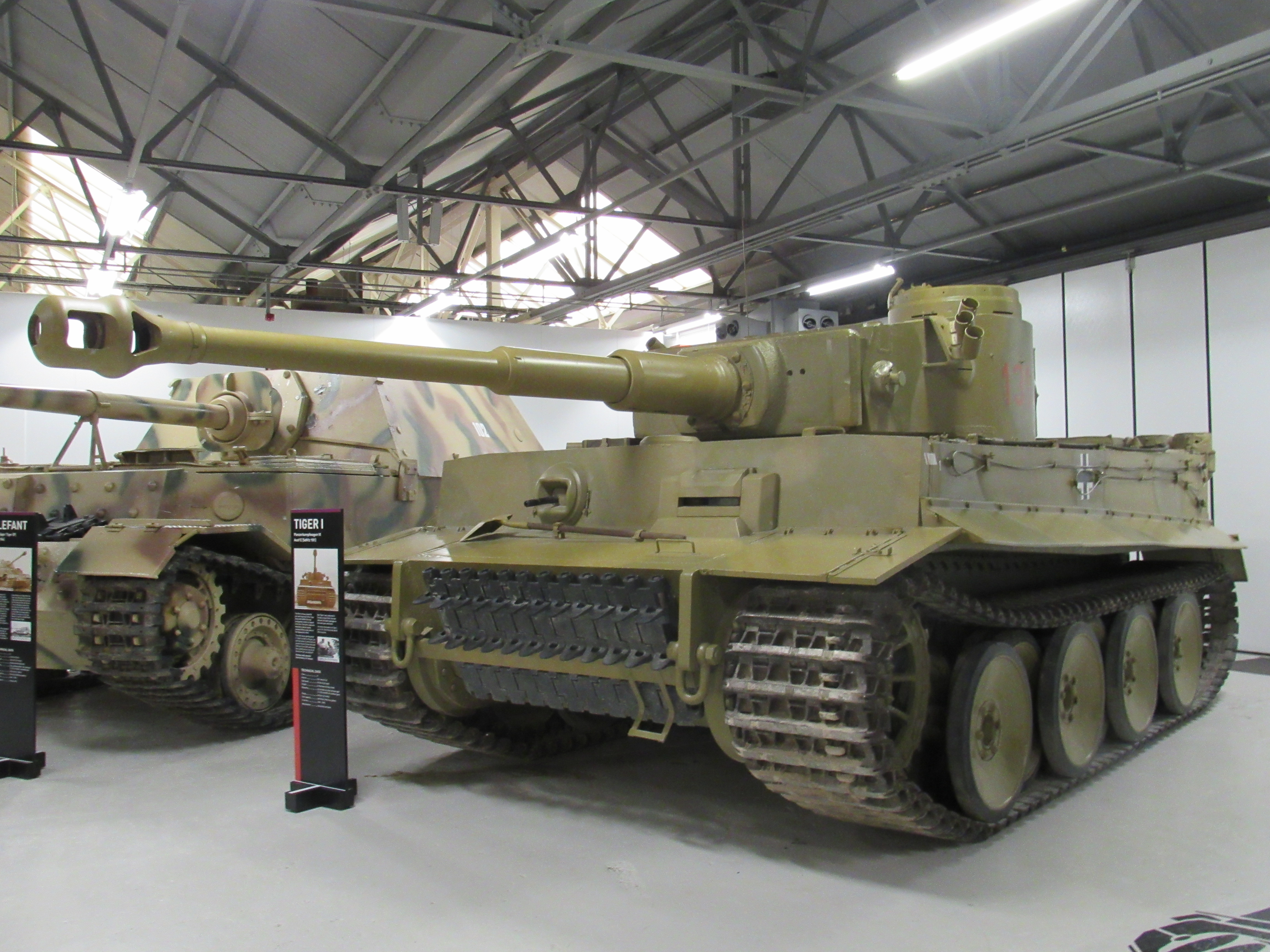 Taken in Bovington Tank Museum